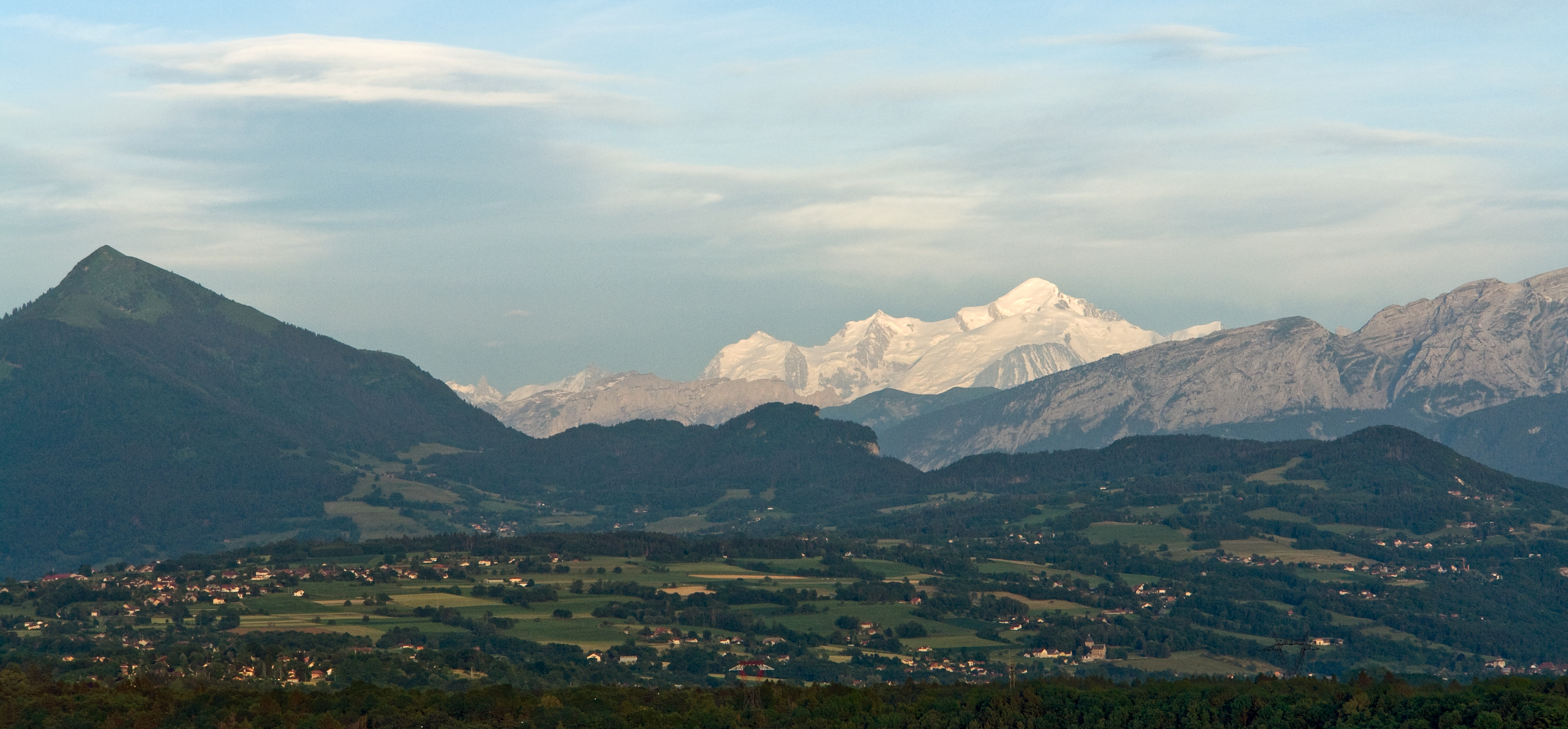 Mont Blanc Massif from Vétraz-Monthoux (60 km), Haute-Savoie. From left to right, Aiguille Verte and Grand Dru, Aiguille du Midi, Mont Blanc du Tacul, Mont Maudit, Mont Blanc, Aiguille de Bionnassay. In front, Dôme and Aiguille du Goûter.